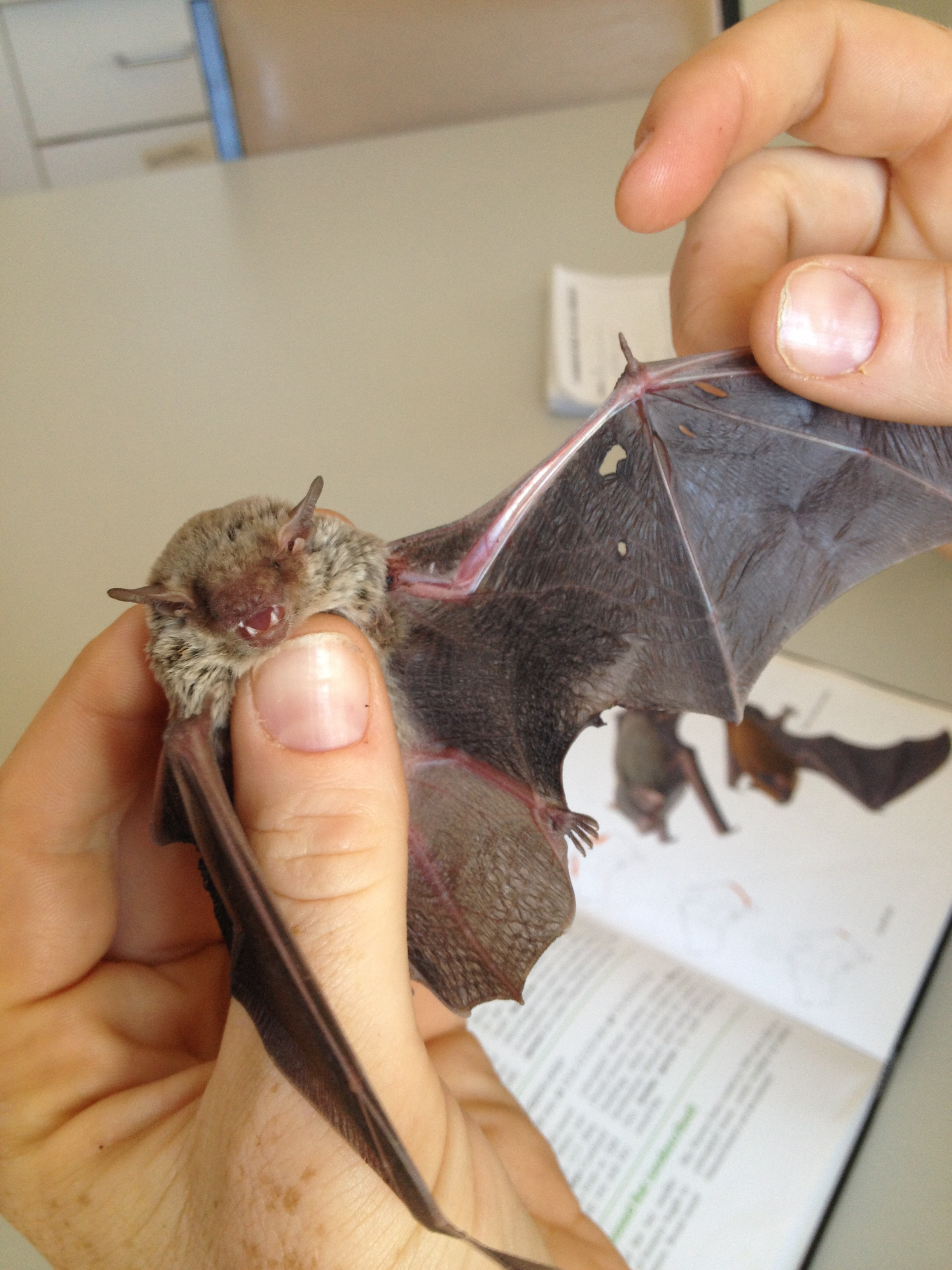 Scotorepens balstoni being held with outstretched wing. Found roosting inside a house at Roxby Downs, South Australia.